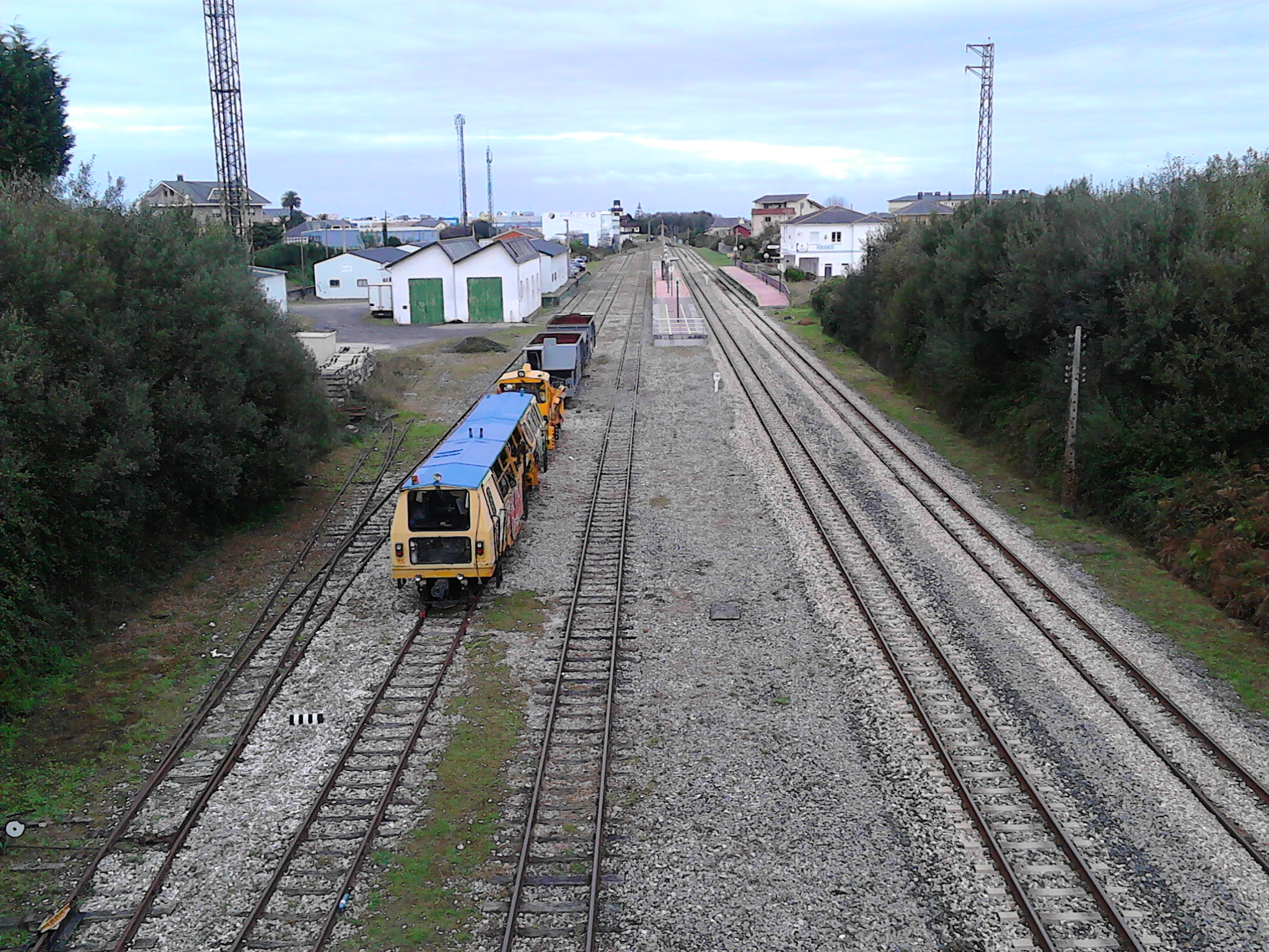 railway statio of Ribadeo, railways Ferrol-Gijón